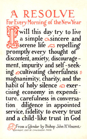 New Year's Resolutions postcard